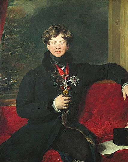 Portrait of George IV. of the United Kingdom